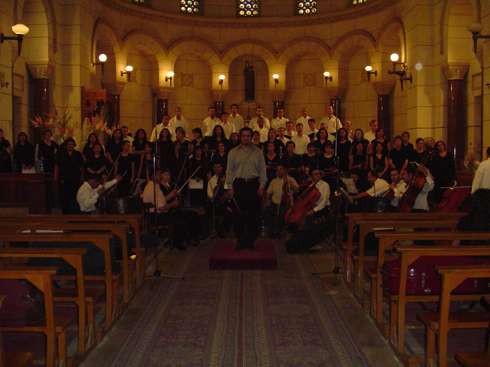 Bazelik Rehearsal, Cairo Celebration Choir